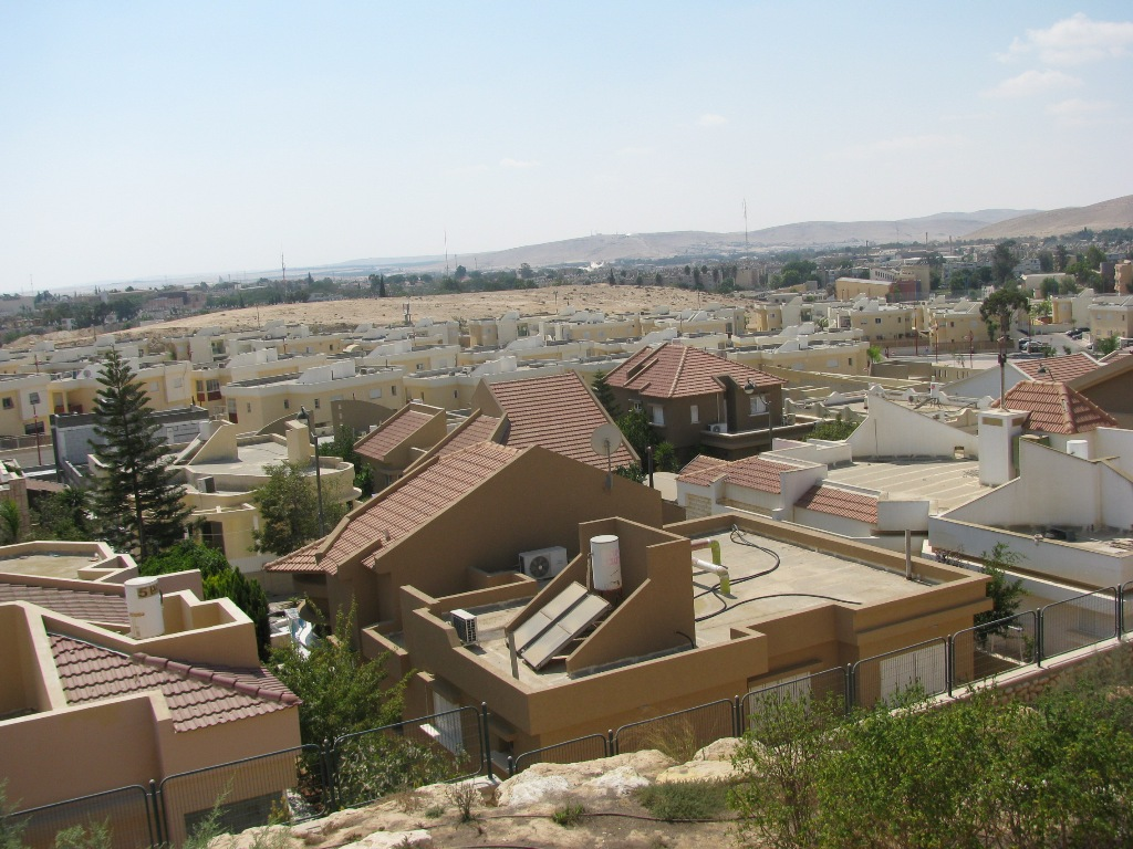 Dimona renewal, Cities in Israel